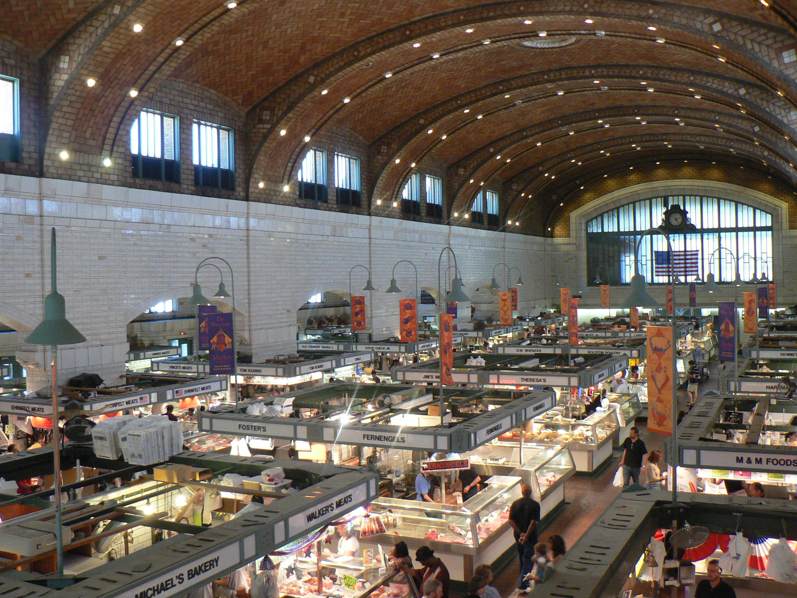 Interior shot of the West Side Market.